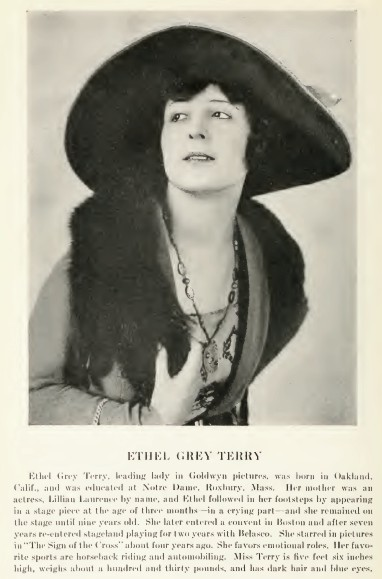 Actress Ethel Grey Terry from Who's Who on the Screen, published by Ross Publishing Co., 1920 [1]